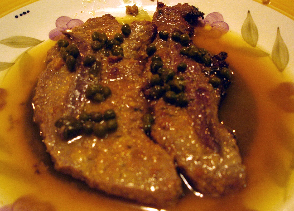 I created the image myself. The picture shows two bonless veals cutlets in a dygon/olive oil souce with capers.